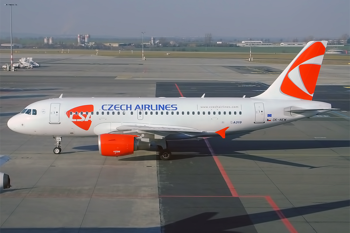 Czech Airlines, OK-NEM, Airbus A319-112